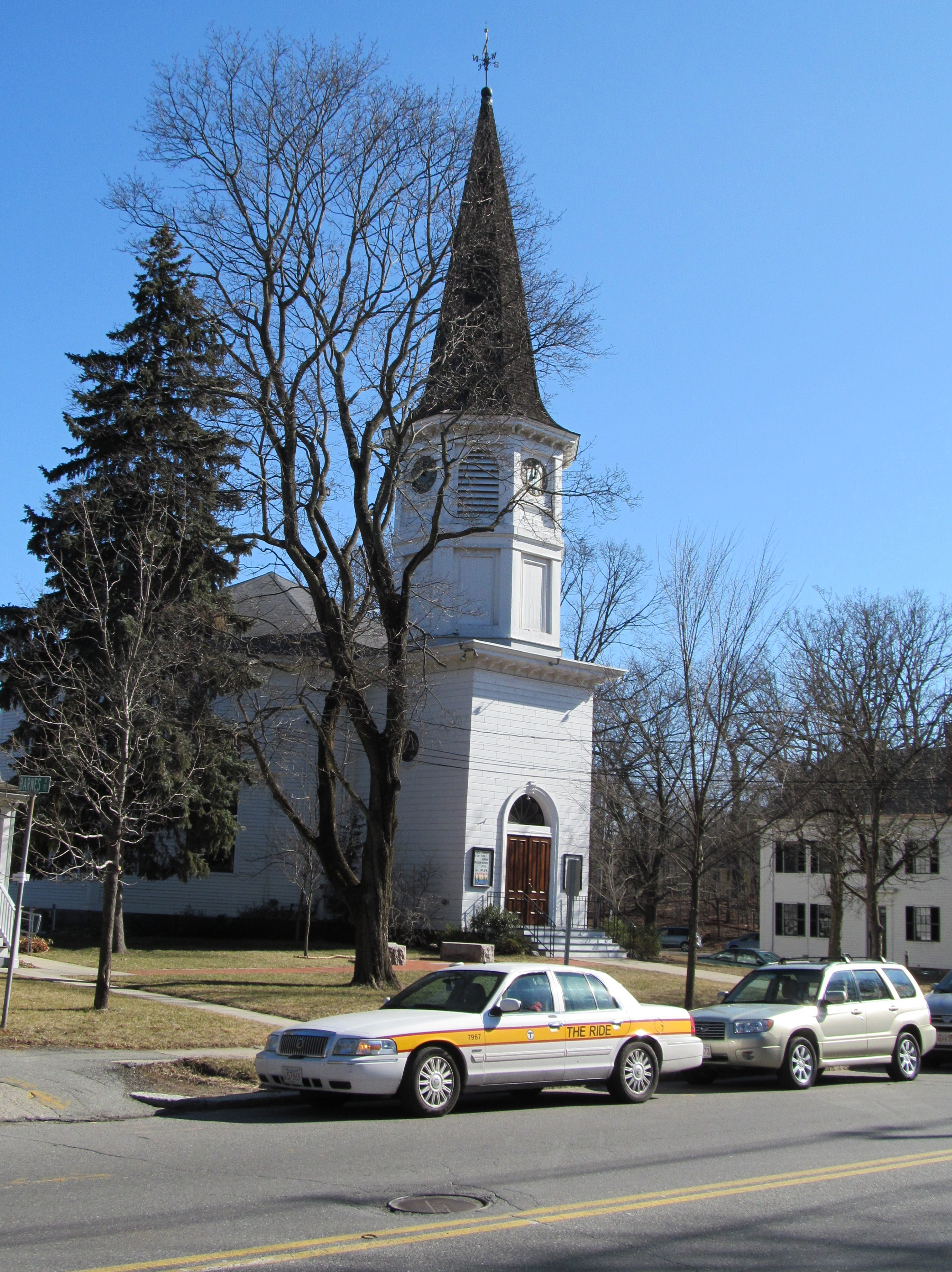 The Ride waiting outside Follen Church, Lexington Massachusetts